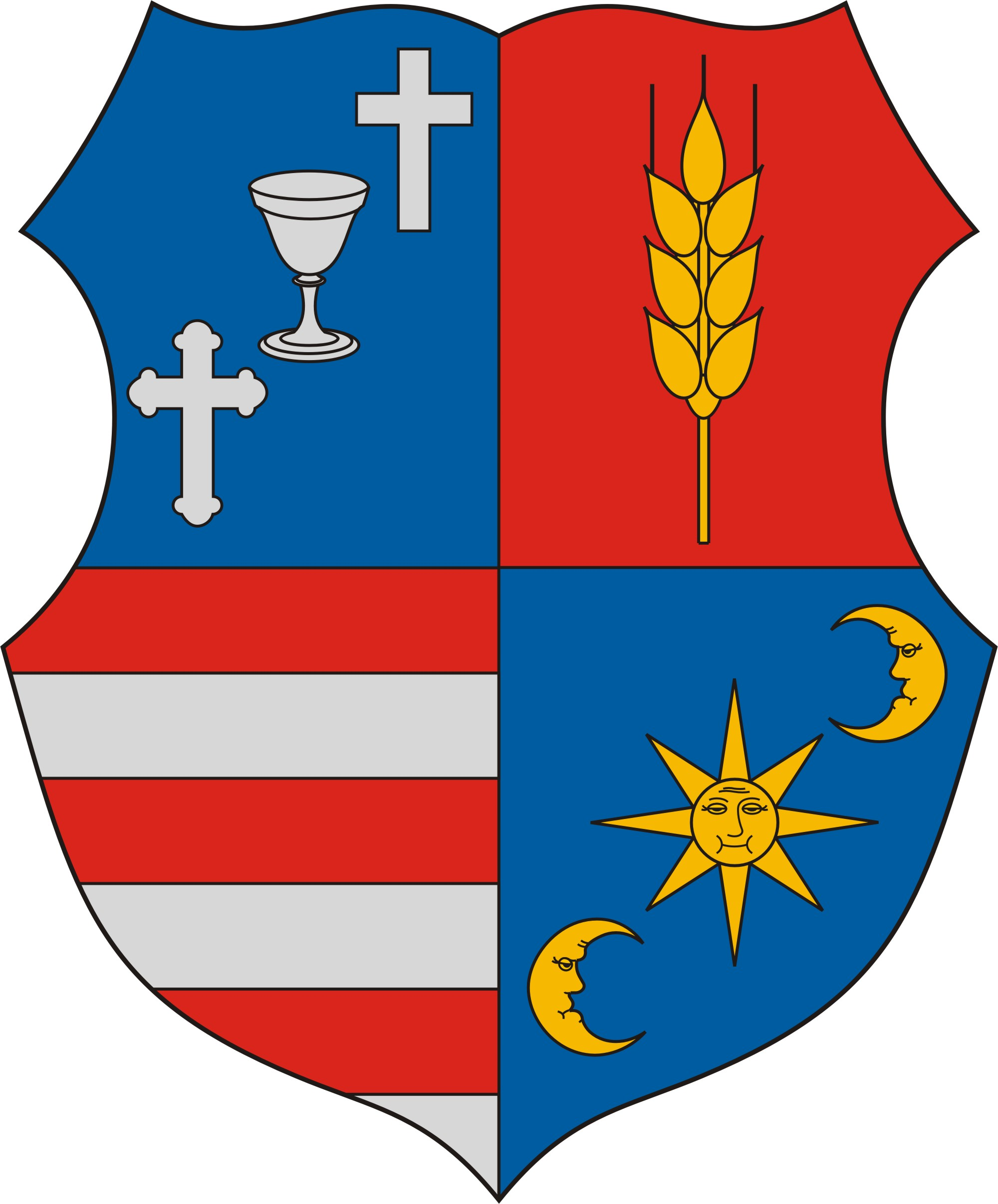 Coat of arms of Sarkadkeresztúr, Hungary